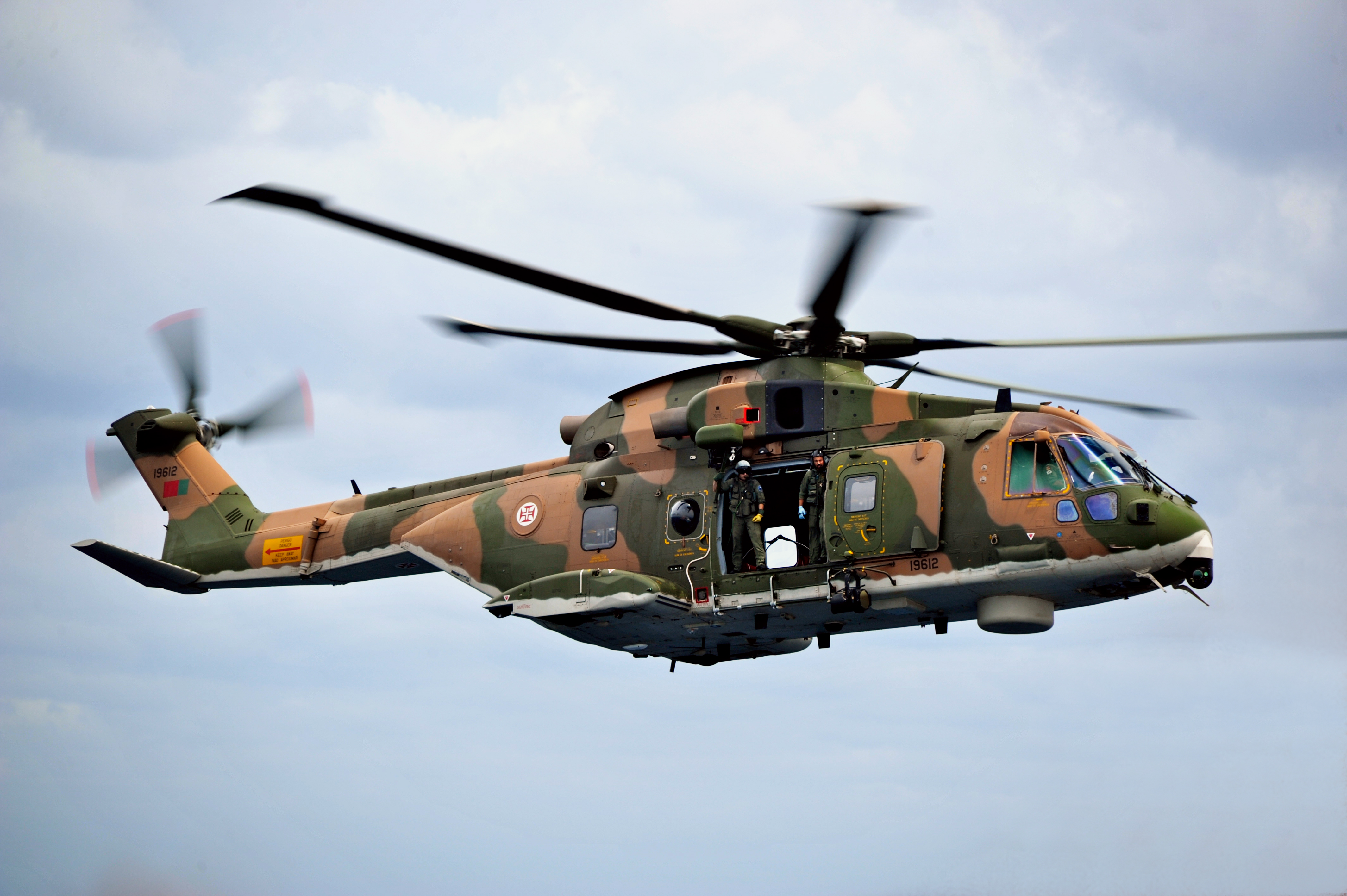 Portuguese Navy Rescue Chopper Over the Atlantic